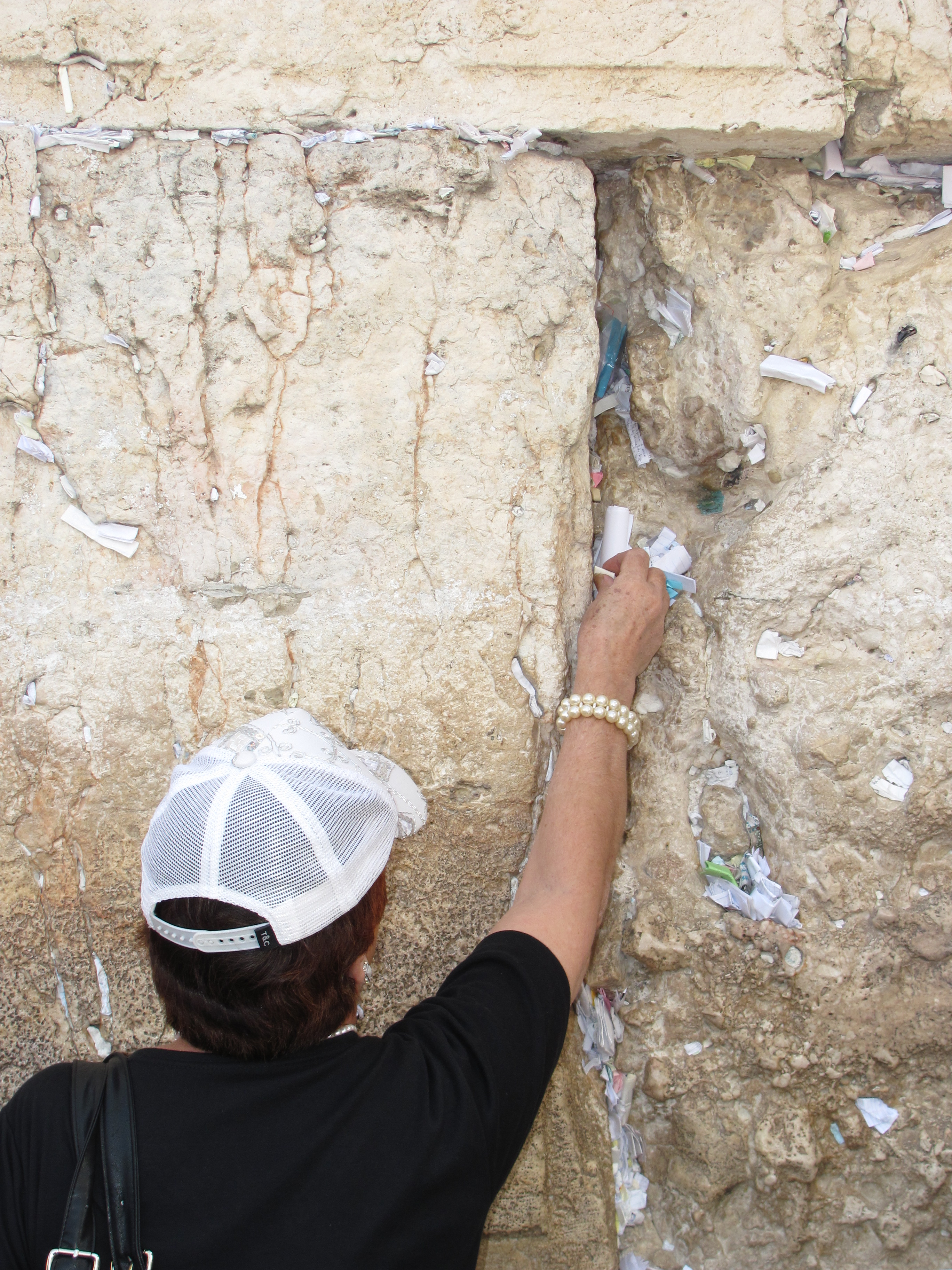 A woman places a prayer note (kvitel) between the stones of the Western Wall in Jerusalem, Israel.